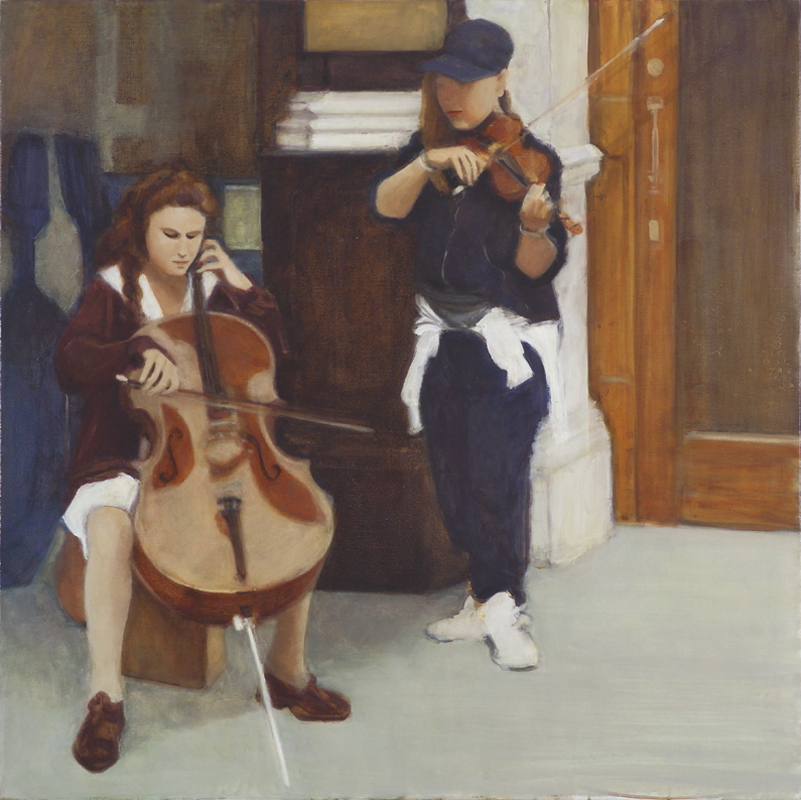 A13 Anna Pasternak, London, summer 1990, oil on linen canvas, 92 x 92 cm